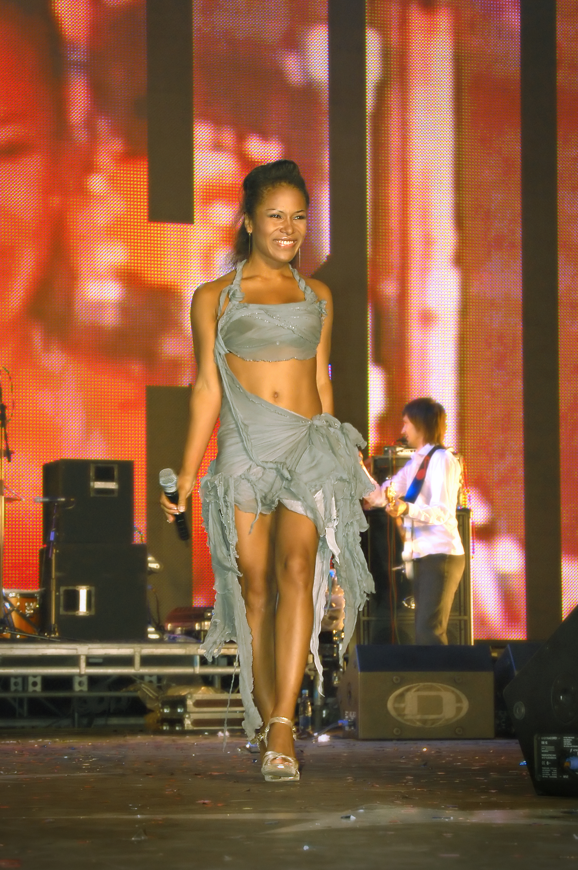 Gaitana in [Kharkov], 24 August 2006